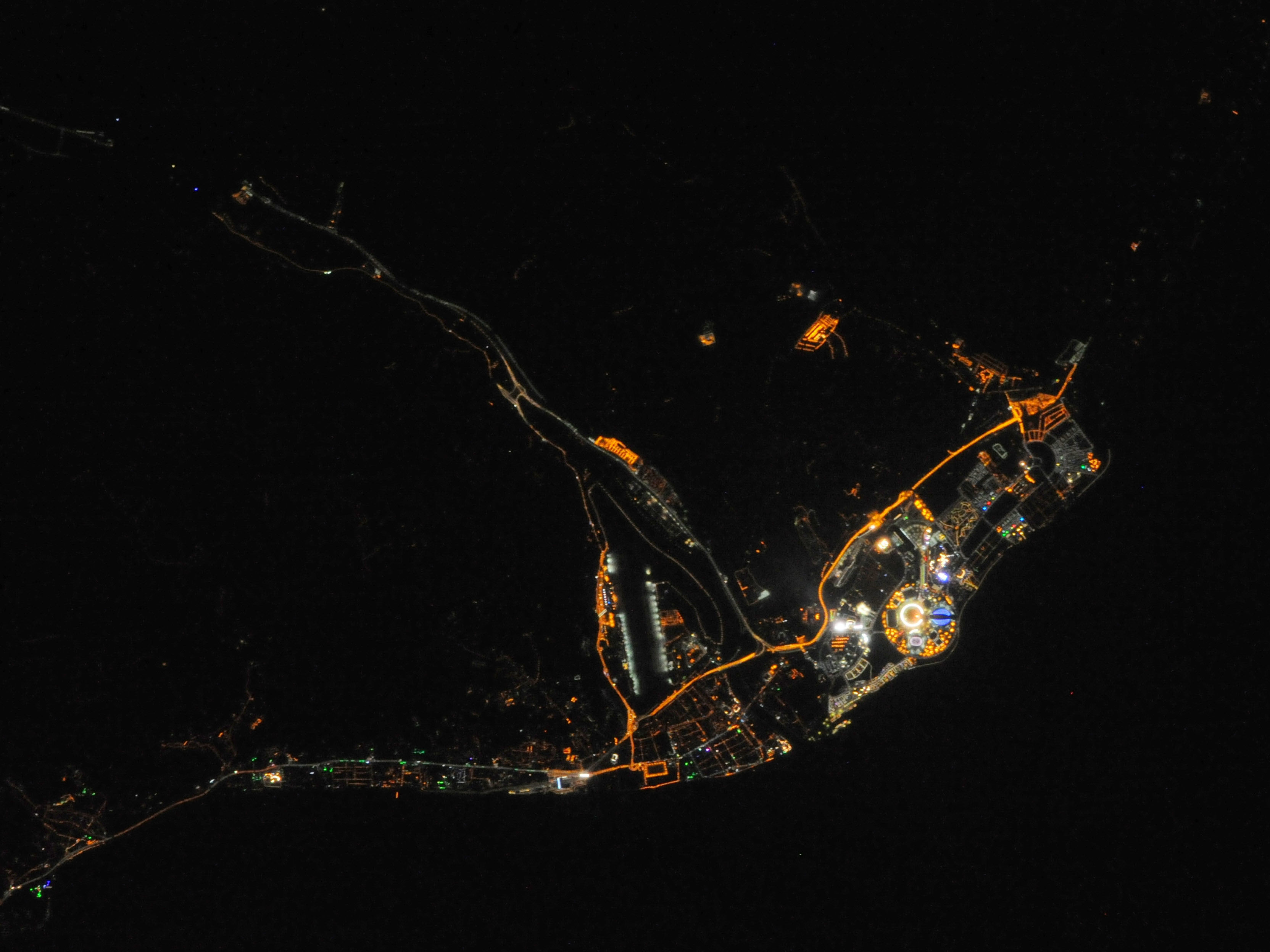 One of the Expedition 38 crew members aboard the International Space Station downlinked this vertical 600mm night view of Sochi, Russia, which clearly shows the site of the 2014 Winter Olympics while they are just a few days under way. Fisht Stadium where the Opening Ceremonies were held on Feb. 7 is easily recognizable as the oval structure in blue. Sochi is a city in Krasnodar Krai, Russia, located on the Black Sea coast near the border between Georgia/Abkhazia and Russia. It has an area of 1,353 square miles or 3,505 square kilometers. Photo credit: NASA